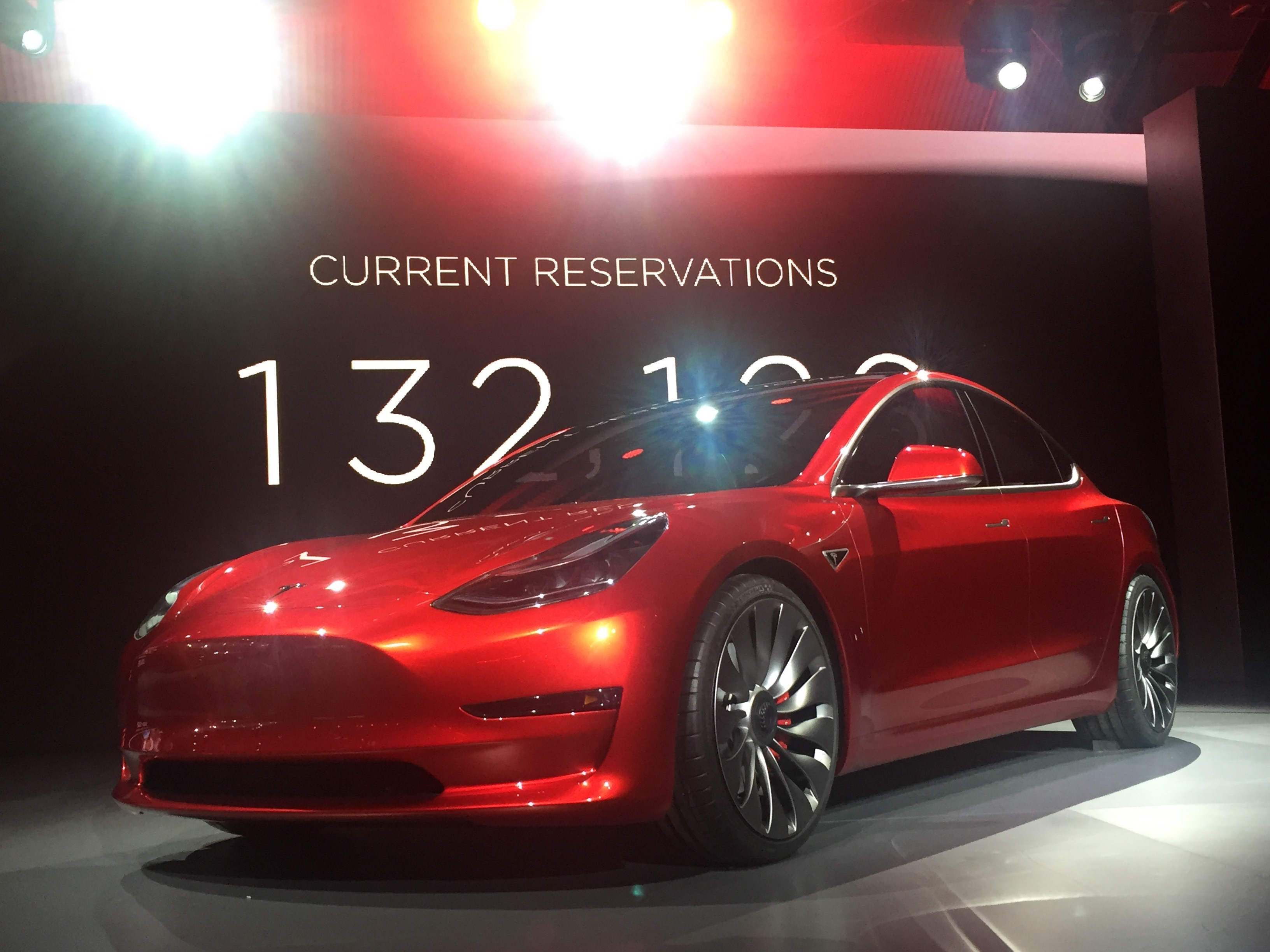 Tesla Model 3 all-electric car at the unveiling event, Hawthorne, California.